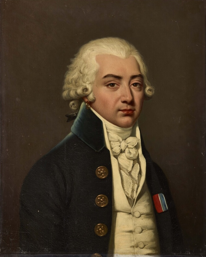 Armand Louis de Gontaut (1747-1793), Duke of Biron